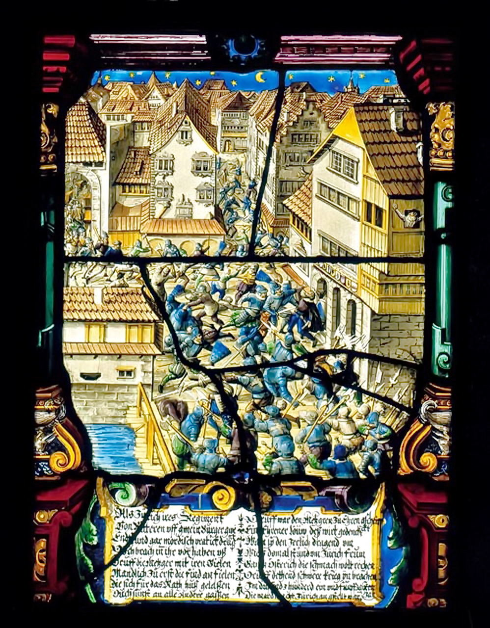 Zürich : Glass painting and heraldry of the so called Mordnacht (murder's night) on 23/24th February 1350 and the first Meisen guild's Zunfthaus.